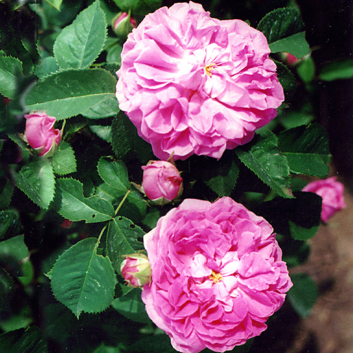 Old Garden Rose Remontant group